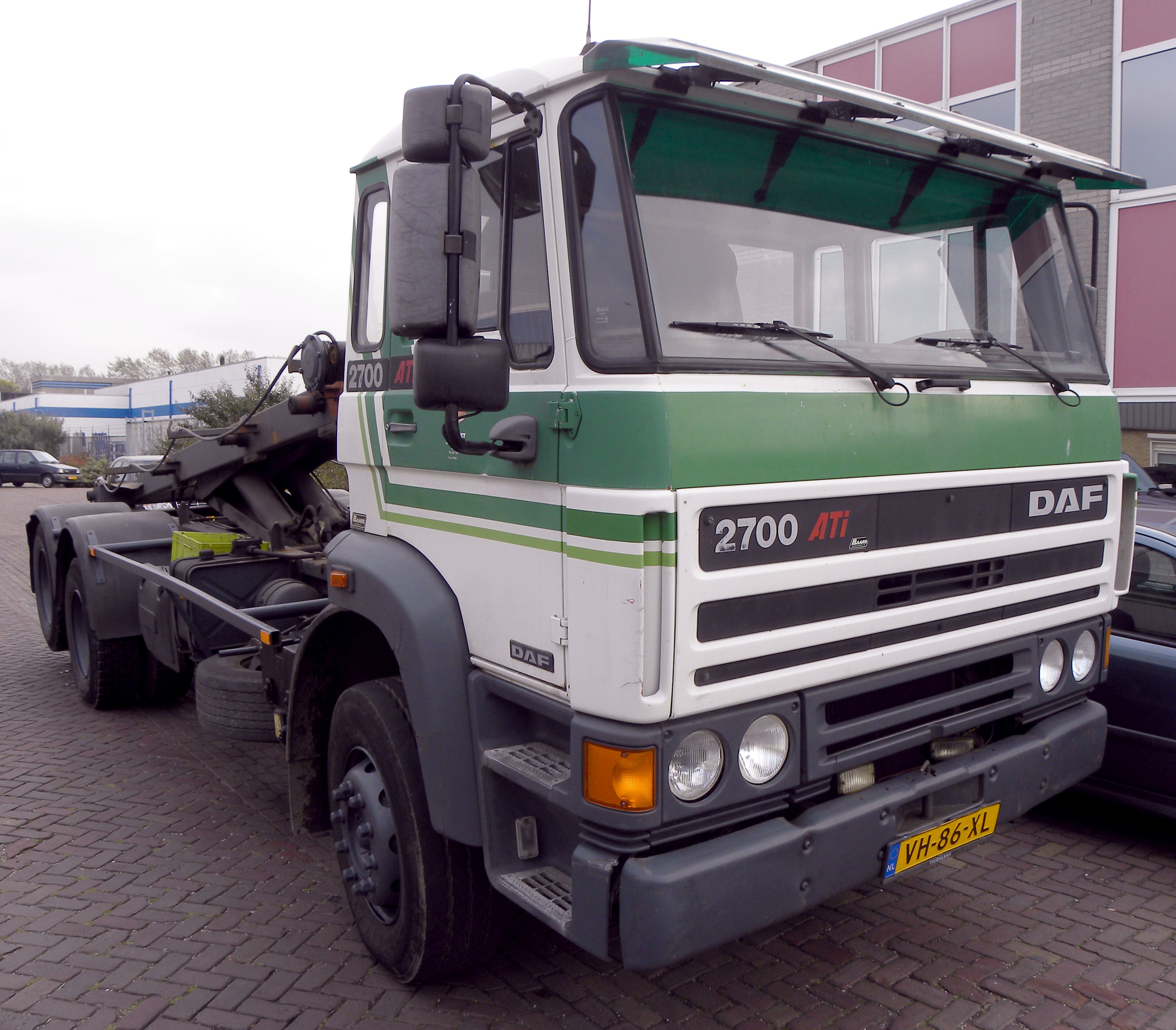 1990 DAF 2700 ATi (AS25HS), 272PS and 25 ton max GVW.